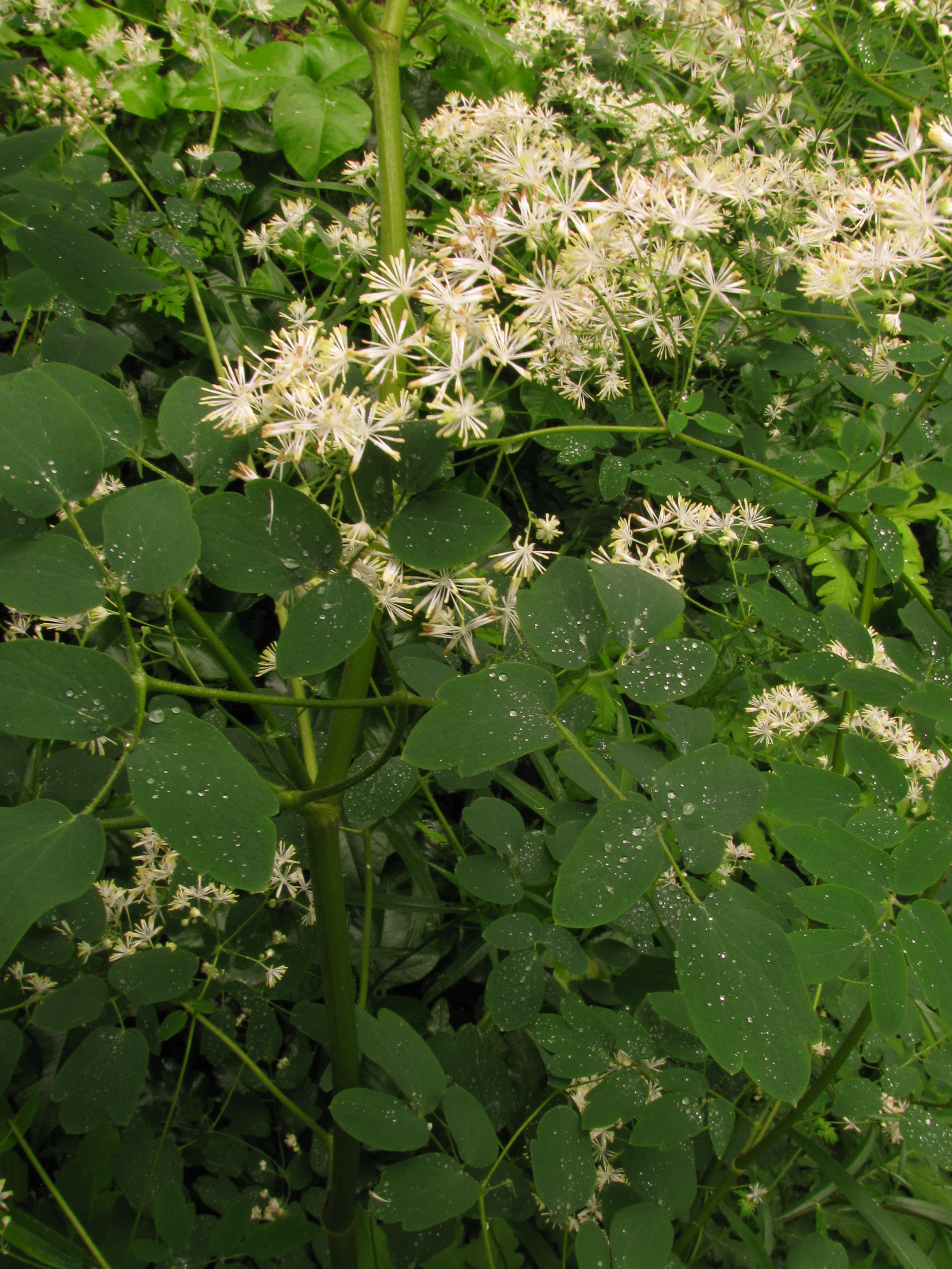 Thalictrum pubescens, Tall Meadow-rue foliage and flowers.